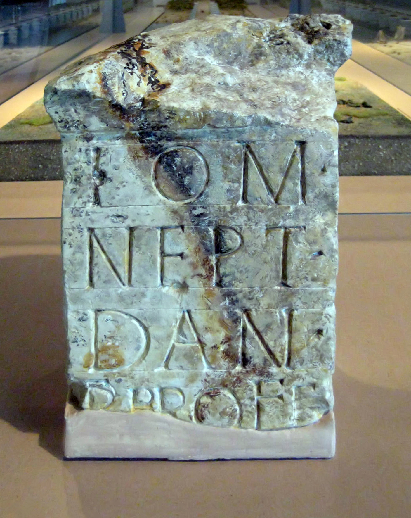 Roman altar found near the northern head of the roman bridge over the Danube near Stepperg. Text of the inscription: I(ovi) O(ptimo) M(aximo) NEPT(uno) DAN(uvio) TOPPO FE(cit)